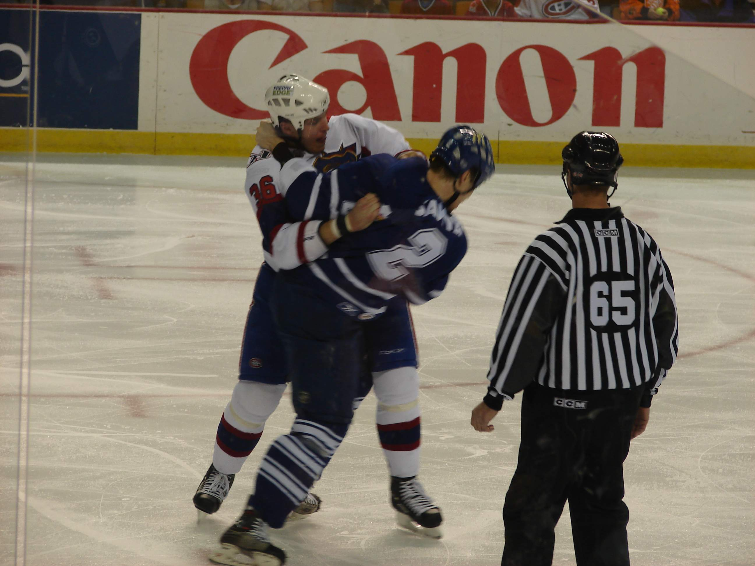 #36 Raitis Ivanans, Latvian ice hockey player in game against Toronto Marlies